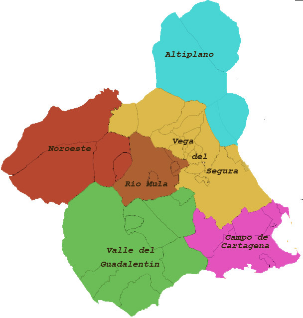 Farm counties of Region of Murcia